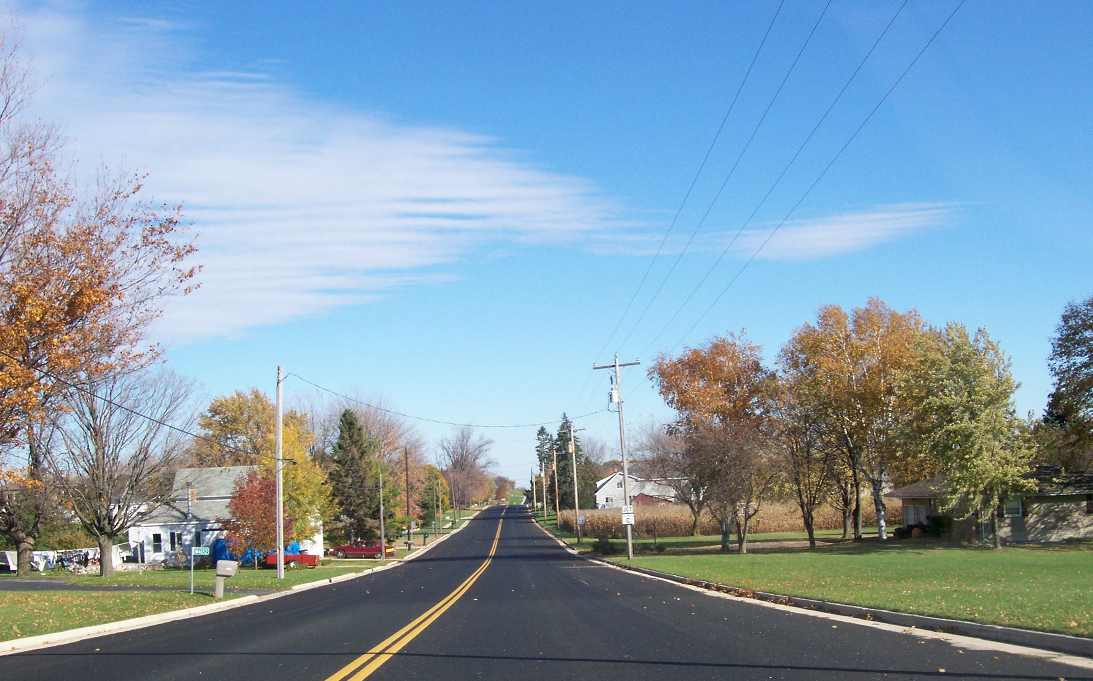 Looking east at Jericho, Wisconsin in Calumet County, Wisconsin along County Highway H.